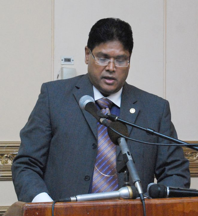 picture of Suriname's politician Santokhi